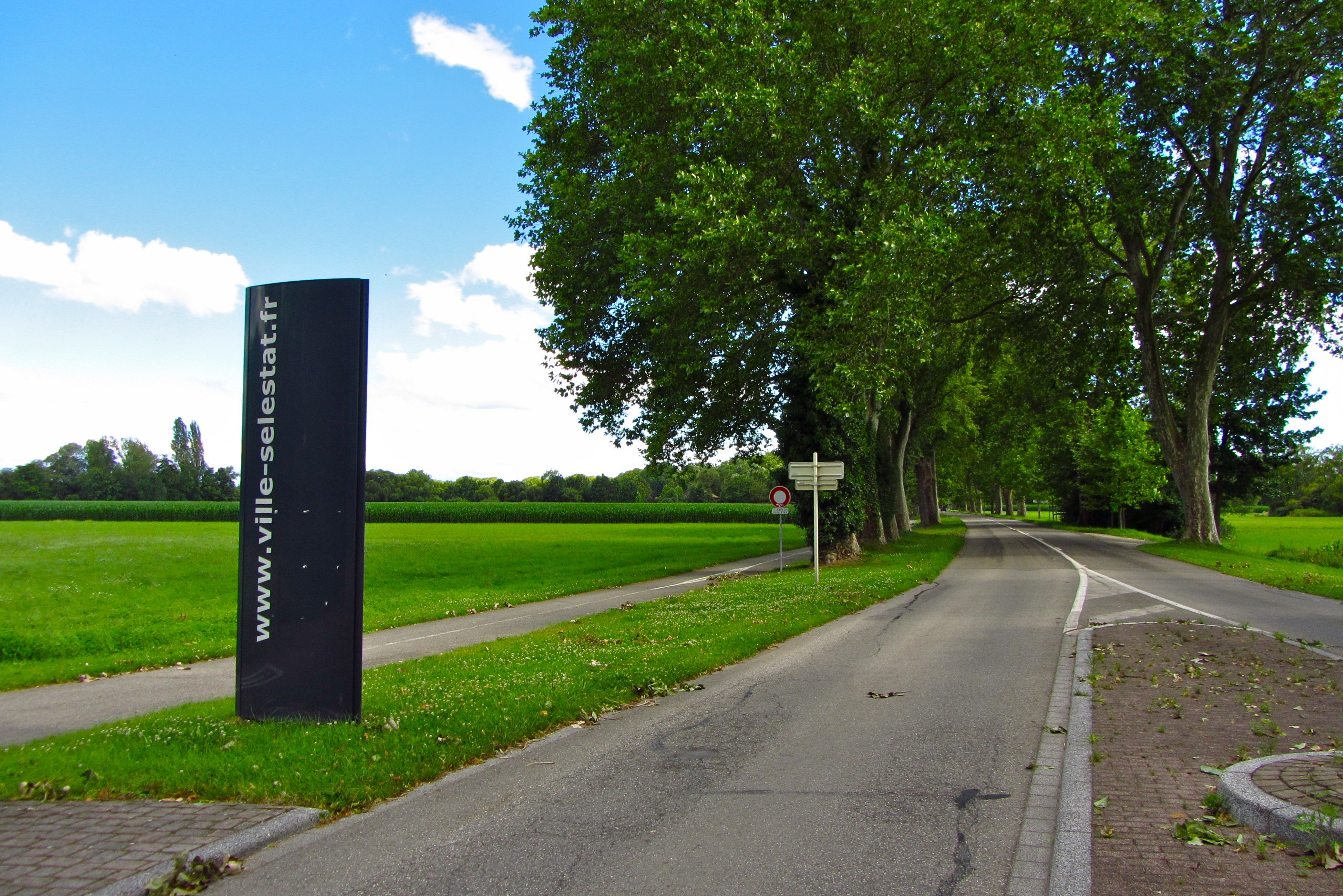 "Salida de Selestat" Route de Marckolsheim, Sélestat, Alsace, France.